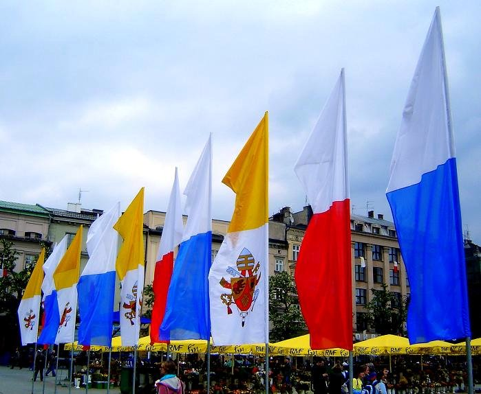 Polish, papal and Marian flags on the Grand Square (Rynek Główny) in Kraków, Poland during Pope Benedict XVI visit in May 2006.